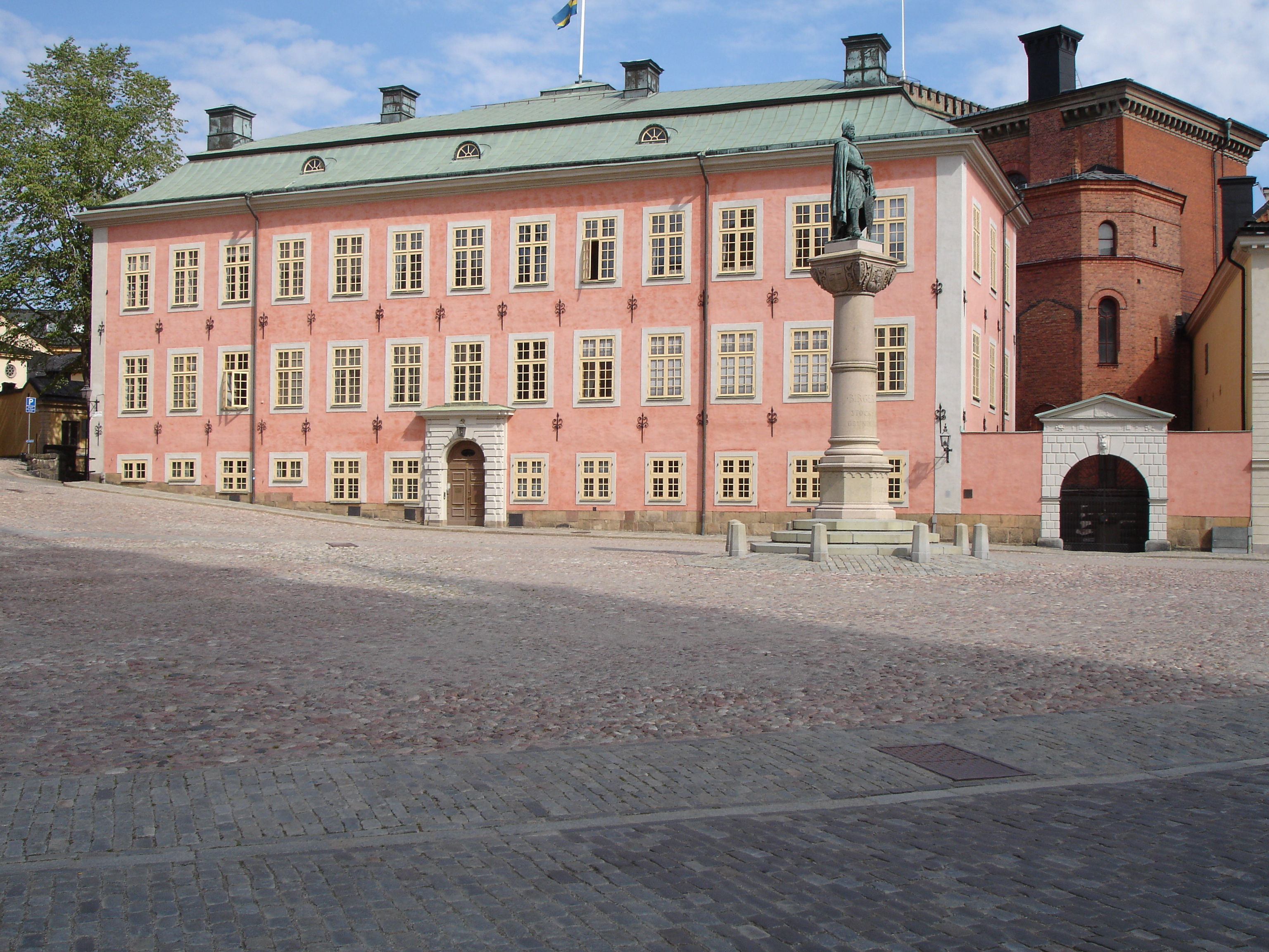 Stenbockska palatset. Stockholm, the capital of Sweden, is a progressive city. Set at the point where the waters of Malaren (Lake Malar) rush into the Baltic, Stockholm is one of Europe’s most beautiful capitals. Nearly 1.5 million people live in the greater Stockholm area, yet it remains a quiet, almost pastoral city. Built on 14 small islands among open bays and narrow channels, the city is handsome and civilized. It is filled with parks that cover nearly a third of the entire city, and with squares and airy boulevards, yet it’s also a bustling metropolis. Glass and steel skyscrapers abound but you are never more than five minutes walk from twisting medieval streets and waterside promenades. See set comments for “Stockholm Sweden Overview & History”.